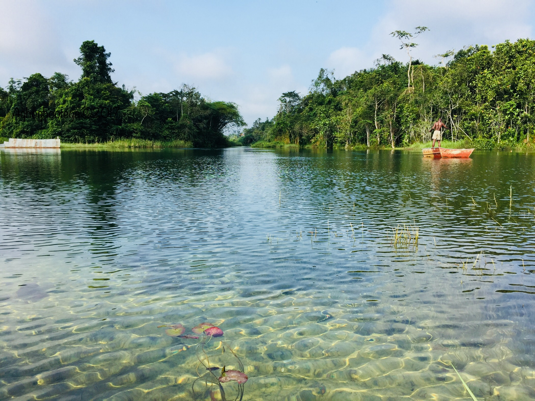 Ethiope river is the only crystal clear river in Nigeria , arguably in the whole of Africa . The River is located in Abraka , delta state, the southern part of Nigeria . The source of the river is mystical because it comes from under the root of a big tree . The river provides very good water and food to the neighbouring villages.